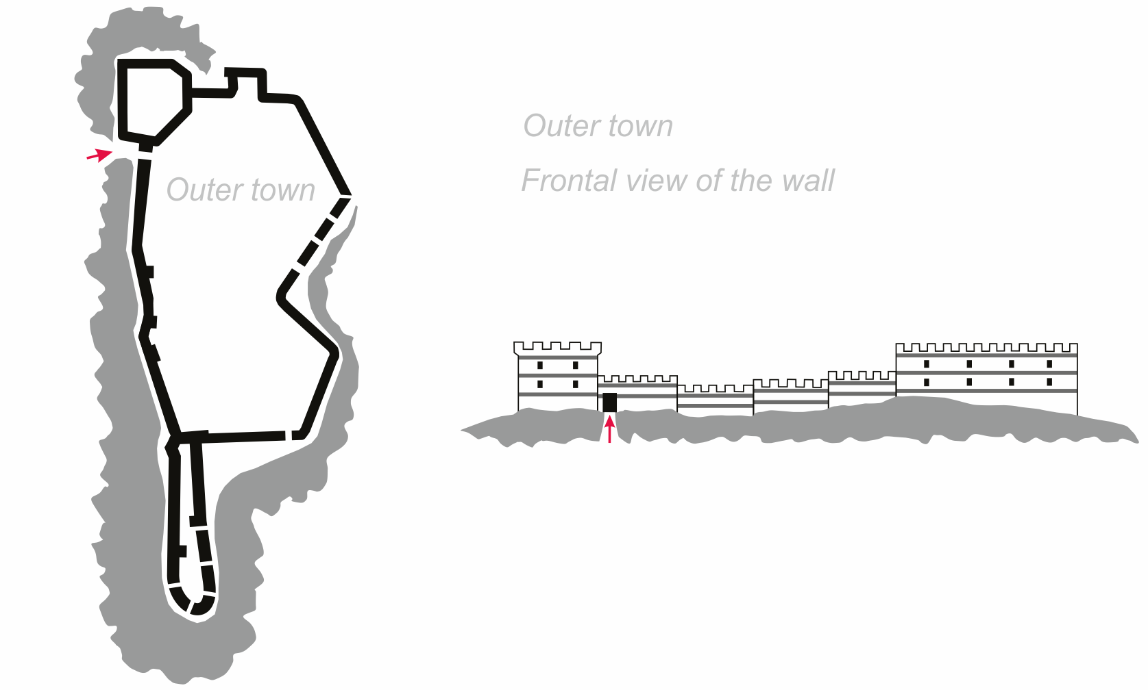 Plan of the medieval Bulgarian fortress Kopsis Based on: [1]